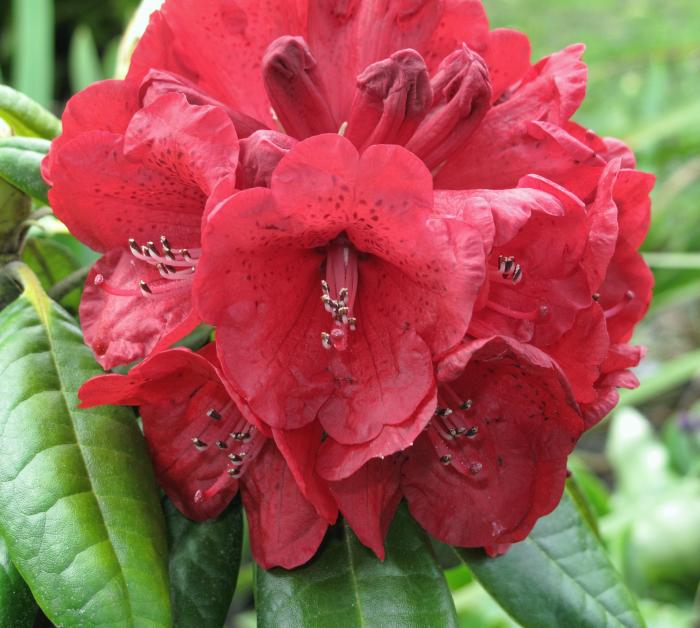 A recent addition to our garden ... it has bloomed for the first time ... and it is the first rhodo in our garden to bloom ... we bought it at the local rhododendron society show and sale two years ago. Rubicon, a cross between 'Noyo Chief' and 'Kilimanjaro', has deep red flowers with black spots on the dorsal lobes.